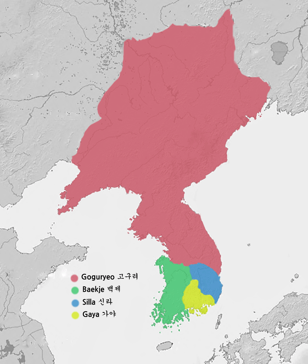 476 years of the Three Kingdoms period was the heyday of Goguryo.